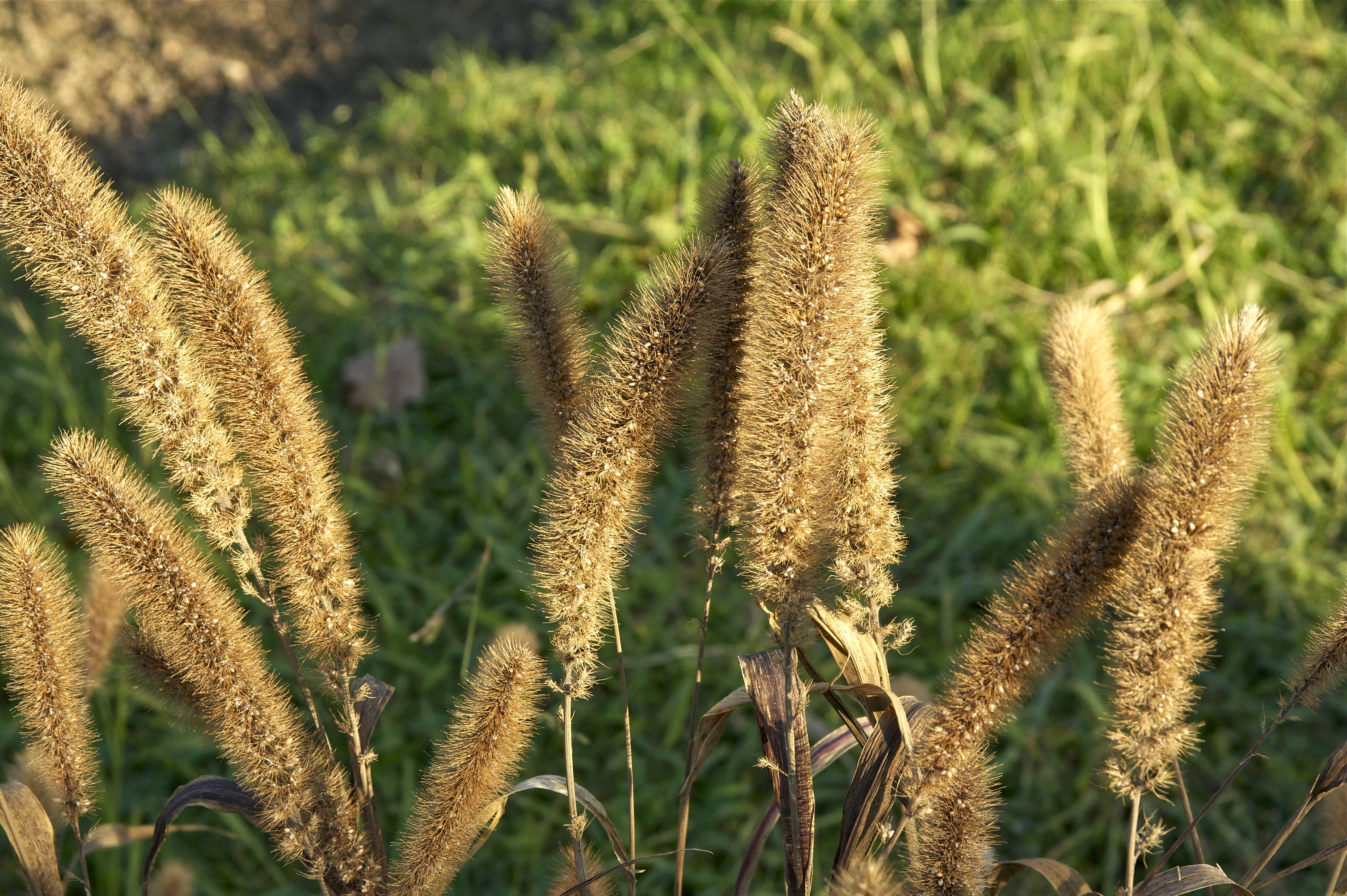 Foxtail millet, Setaria italica (L.) Beauv. in autumn. Jardin des Plantes, Paris